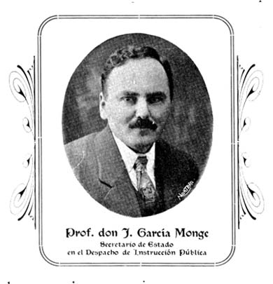 Joaquín García Monge, Secretary of State of Education in Costa Rica, 1919